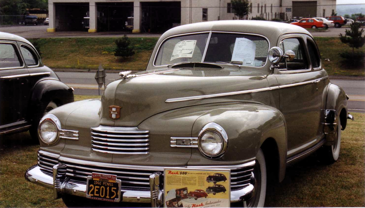 1946 Nash 600, grey two-door sedan.